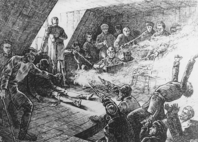 New Brunswick. The Caraquet Riots. Death of Constable Gifford (Shootout in André Albert's house, January 27, 1875.)